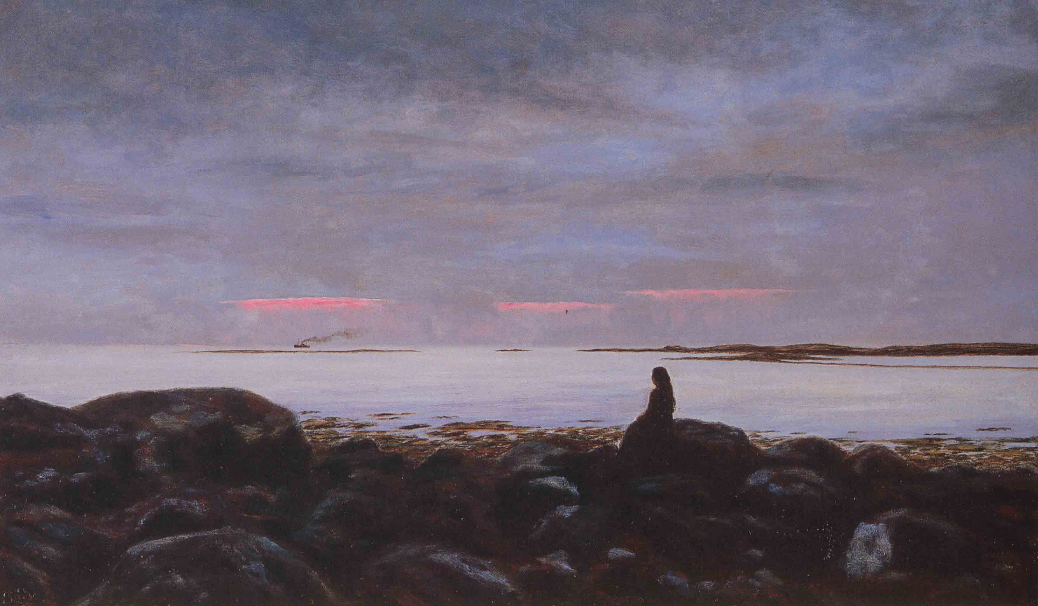 Sumarkvöld við Reykjavík (Summer Evening in Reykjavík) by Þórarinn B. Þorláksson. Made in 1904.